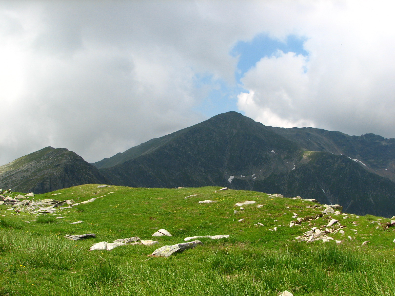 Parang mount, Romania